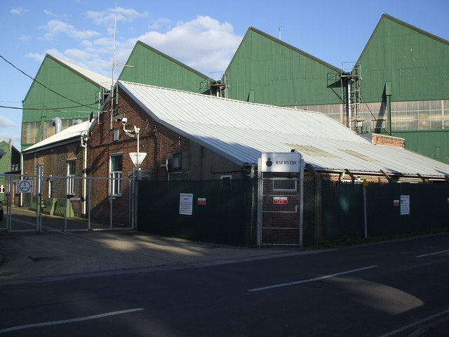 Disused RAF Building in Hythe. These building used to house the American Army but they left here in 2006. At present these buildings are lying empty awaiting the fate.